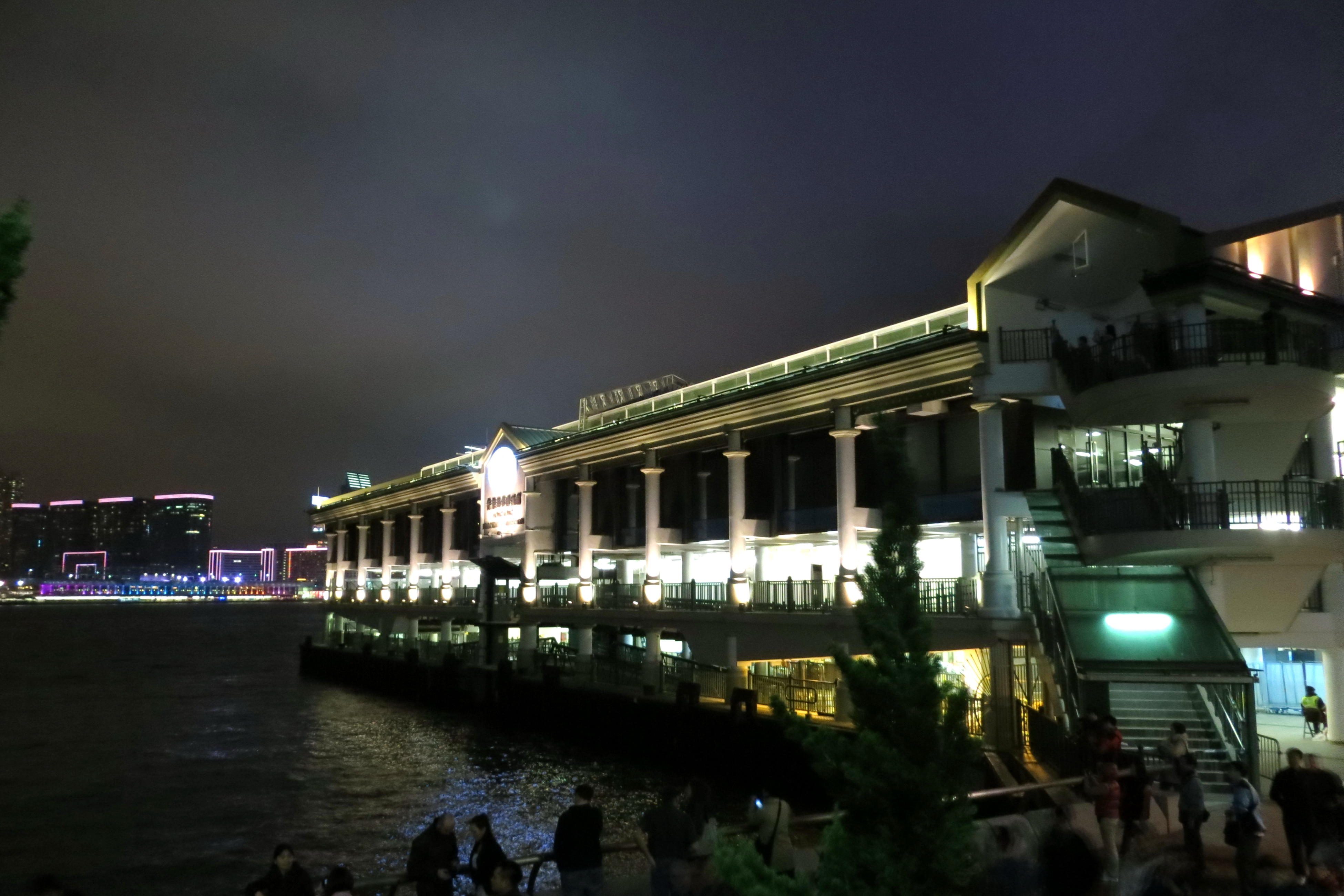 Hong Kong Maritime Museum, Central Pier 8, Hong Kong.